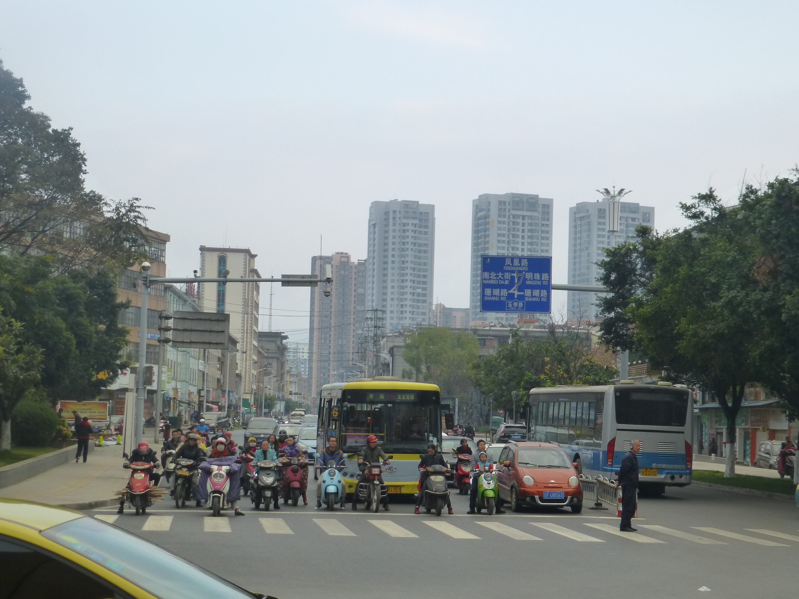 Downtown Yuxi, Yunnan. Yudai Rd at Shanhu Rd